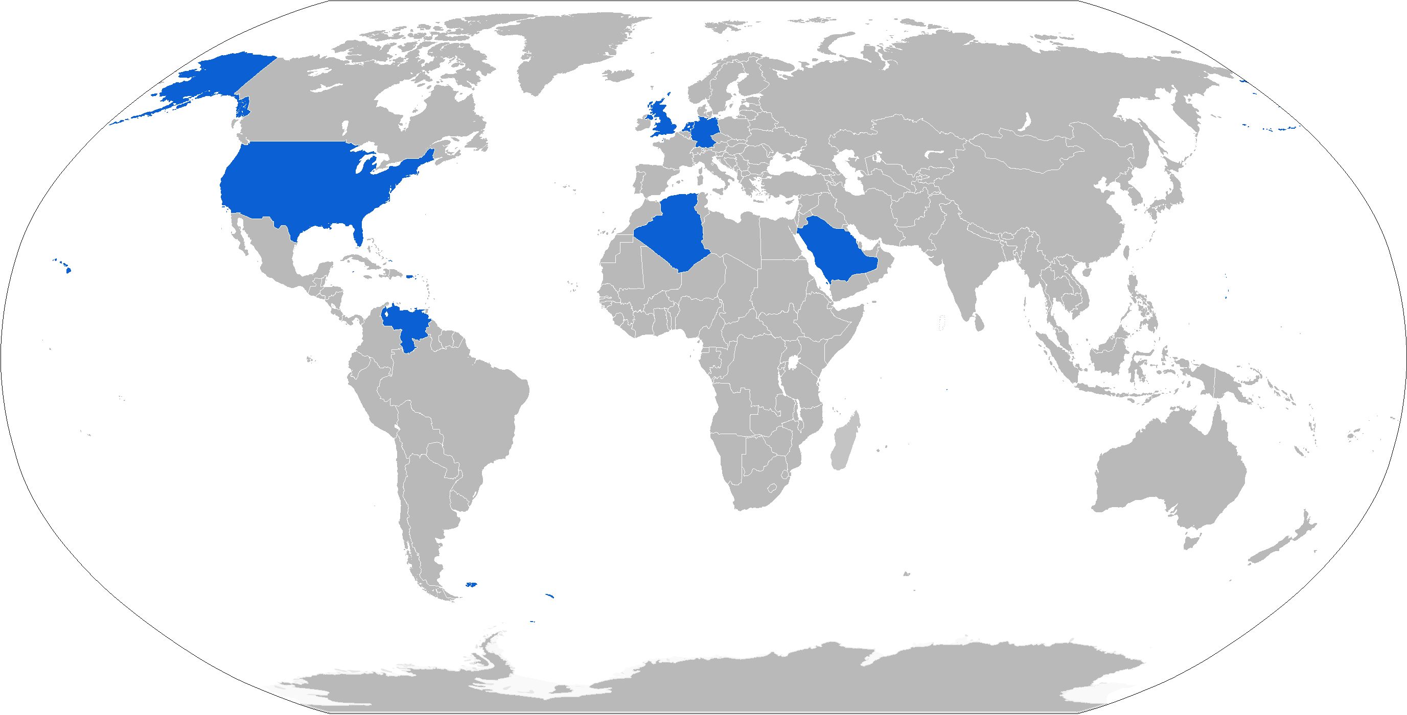 Map of Fuchs operators in blue with former operators in red